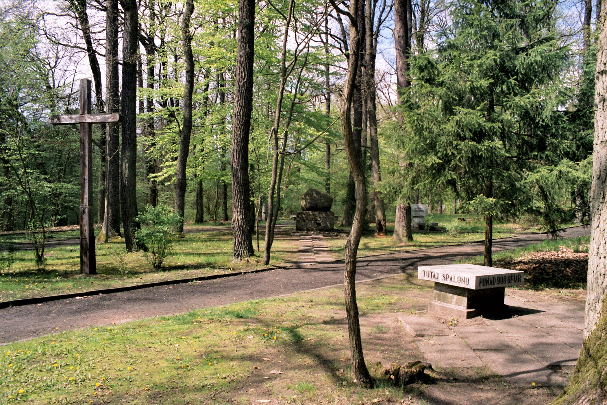 Toruń-Barbarka (Poland), cemetery of victims of executions during II World War